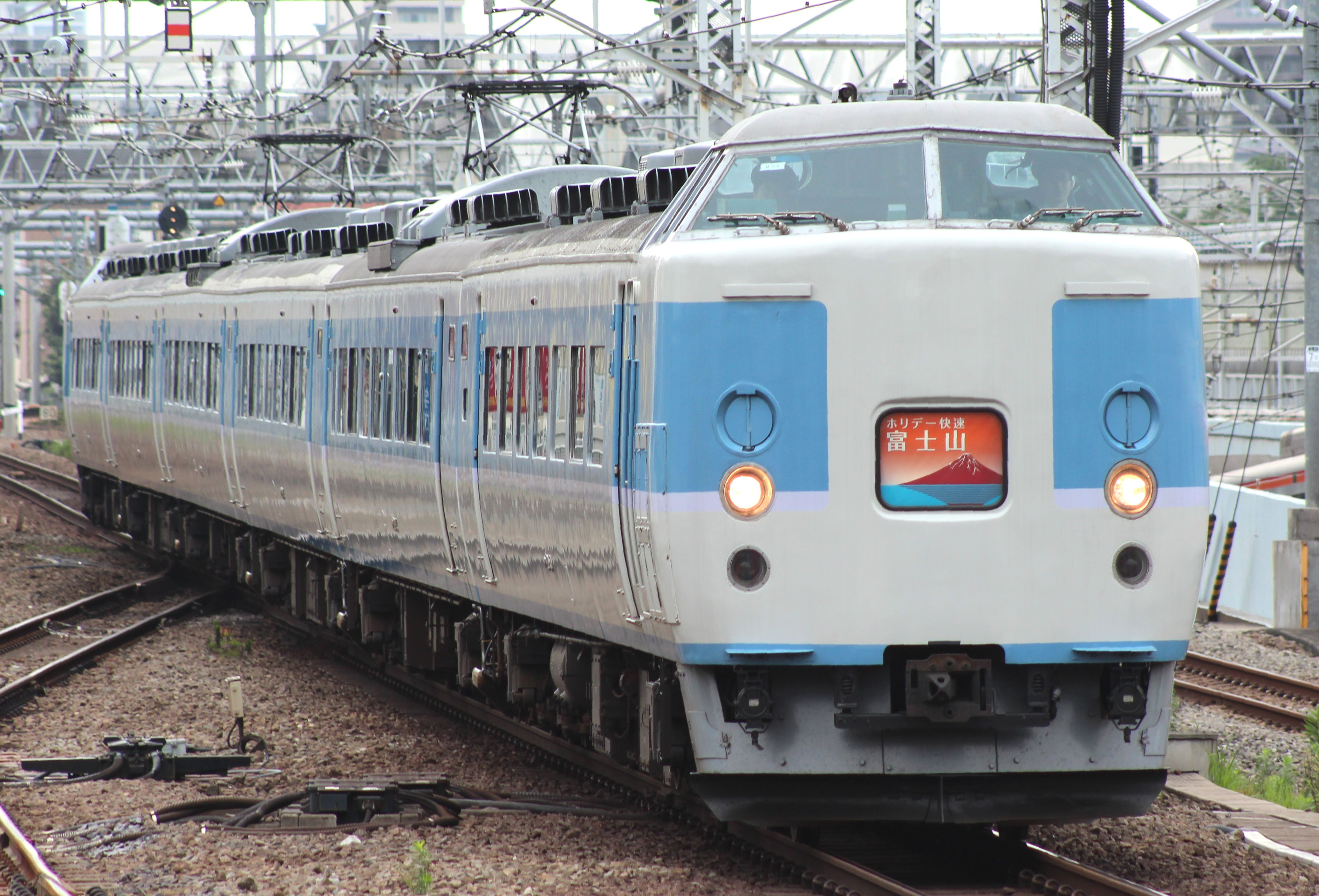 JR East 189 series EMU set M50 approaching Nakano Station in Tokyo on a Holiday Rapid Fujisan service